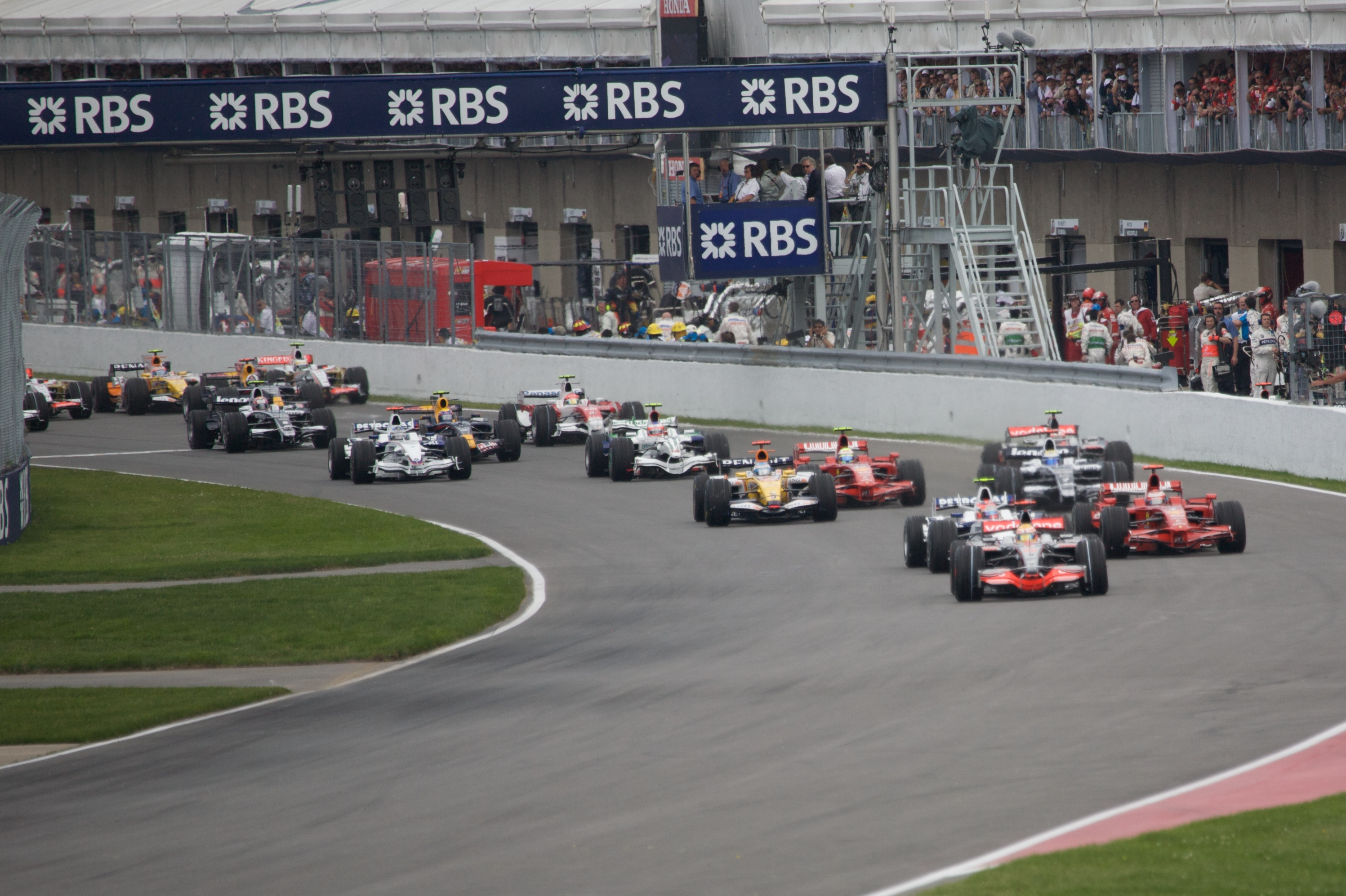 The start of the 2008 Canadian Grand Prix